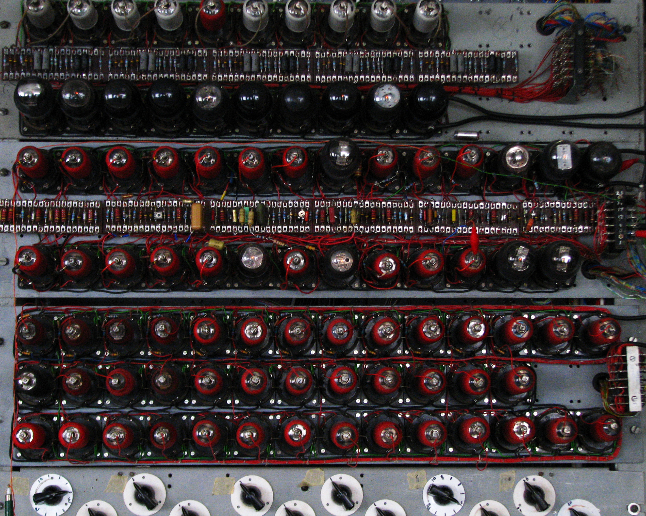 computers, buckinghamshire, milton keynes, bletchly, bletchley park, the national museum of computing, vacuum tubes, bombe, Colossus